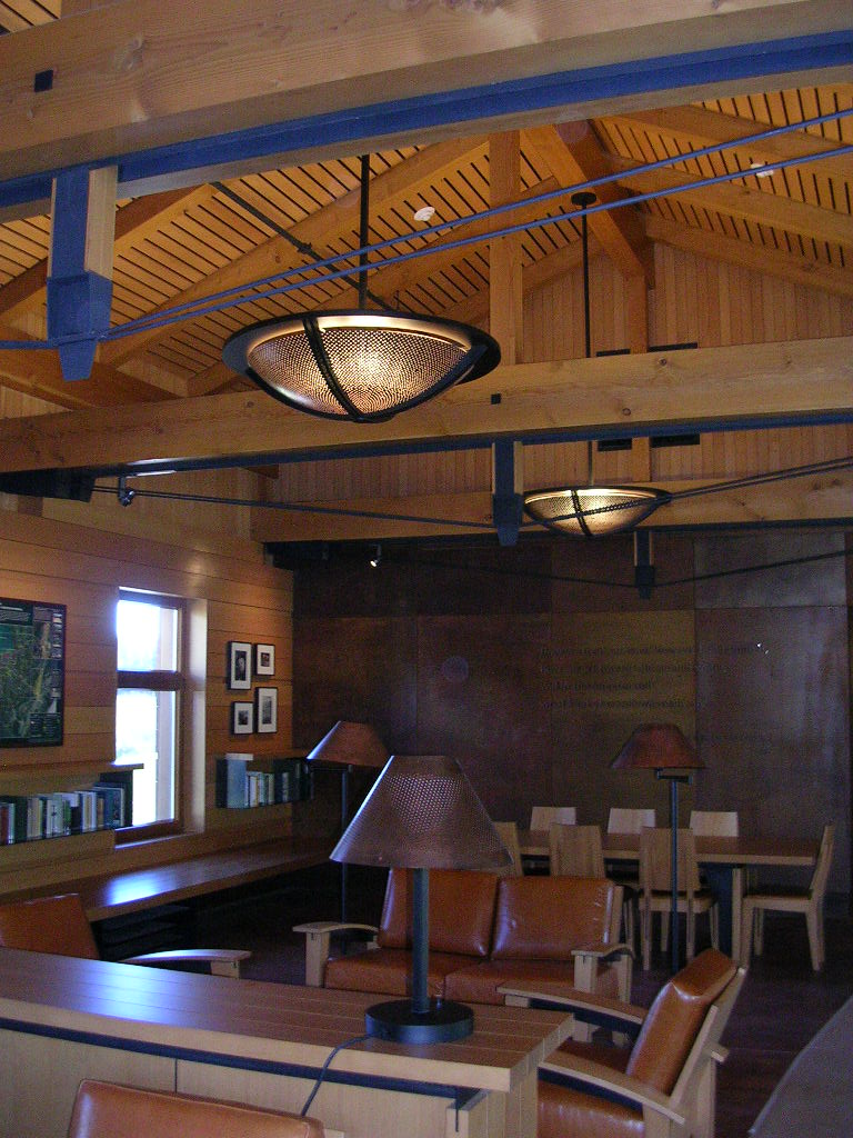 Interior of the Laurance S. Rockefeller Preserve visitor center in Grand Teton National Park. 43°37′35″N 110°46′31″W / 43.62639°N 110.77528°W